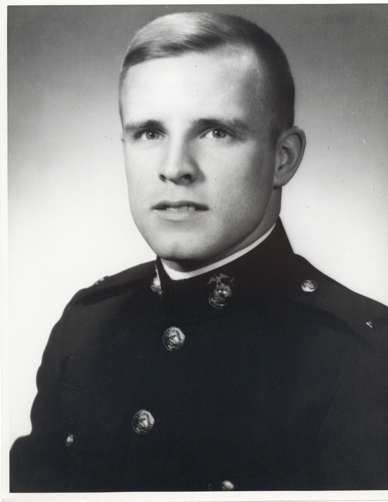 Terrence C. Graves, USMC; Medal of Honor recipient, KIA in Vietam; hi-res image from United States Marine Corps (History Division), official biography at